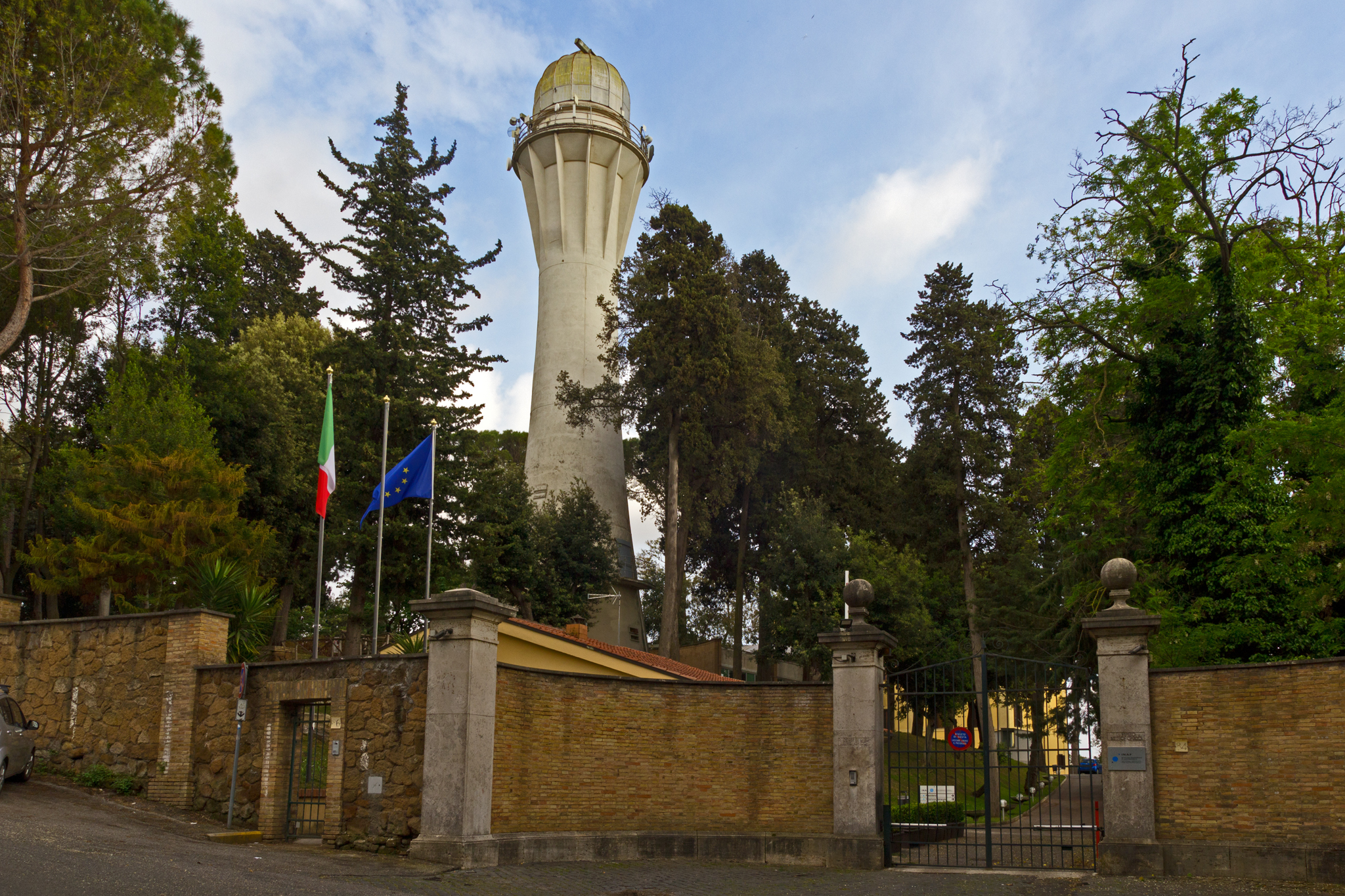 Solar tower of the astronomical observatory of Rome on Monte Mario. The solwar tower was built in 1951 and was, at that time, a leading instrument for solar research.